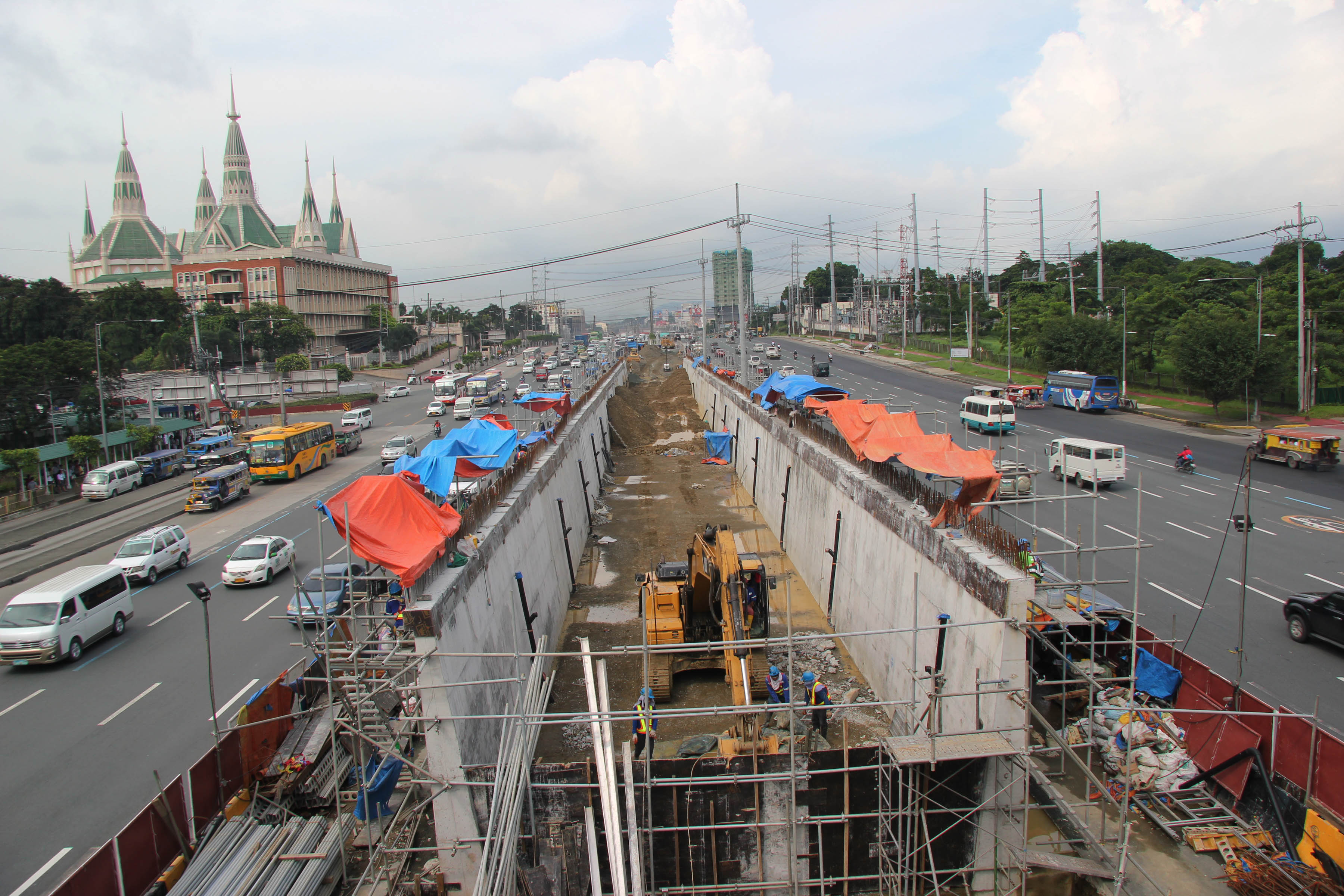 The construction of the MRT Line 7 is expected to be completed and operational by 2020, the MRT 7 project will service over 400,000 passengers in Metro Manila and nearby provinces of Bulacan and Rizal. Composed of 14 stations, the 22 km MRT 7 rail transit system will connect North Avenue in Quezon City to San Jose Del Monte City in Bulacan. Among the areas where stations shall be constructed include: North Avenue, Quezon City Memorial Circle, University Avenue, Tandang Sora, Don Antonio, Batasan, Doña Carmen, Regalado, Mindanao Avenue, Quirino, Sacred Heart, Tala, and San Jose Del Monte.This photo taken along Commonwealth Avenue in Quezon City on Thursday (Aug. 2, 2018).